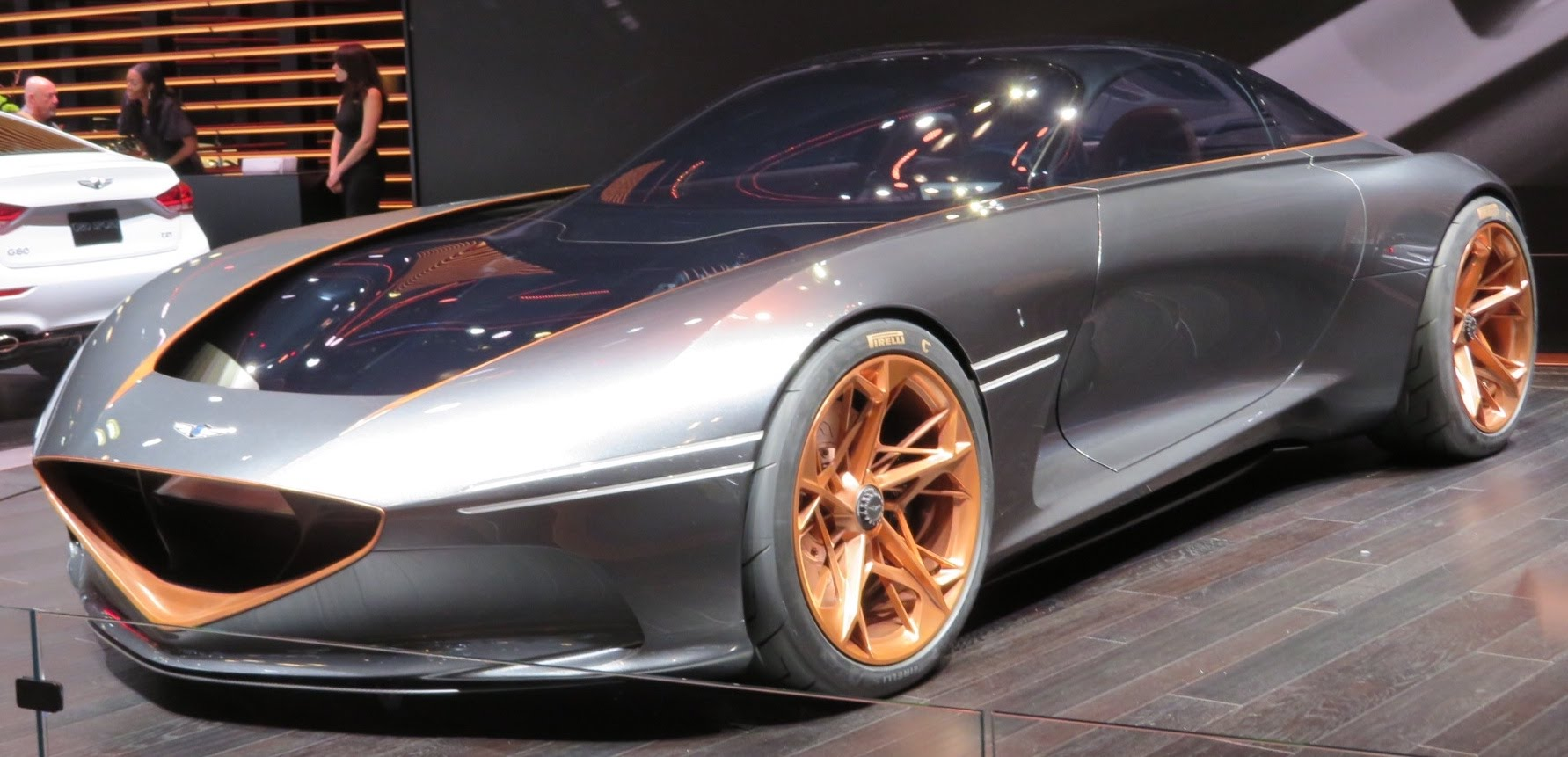 In New York International Auto Show, at Manhattan, New York